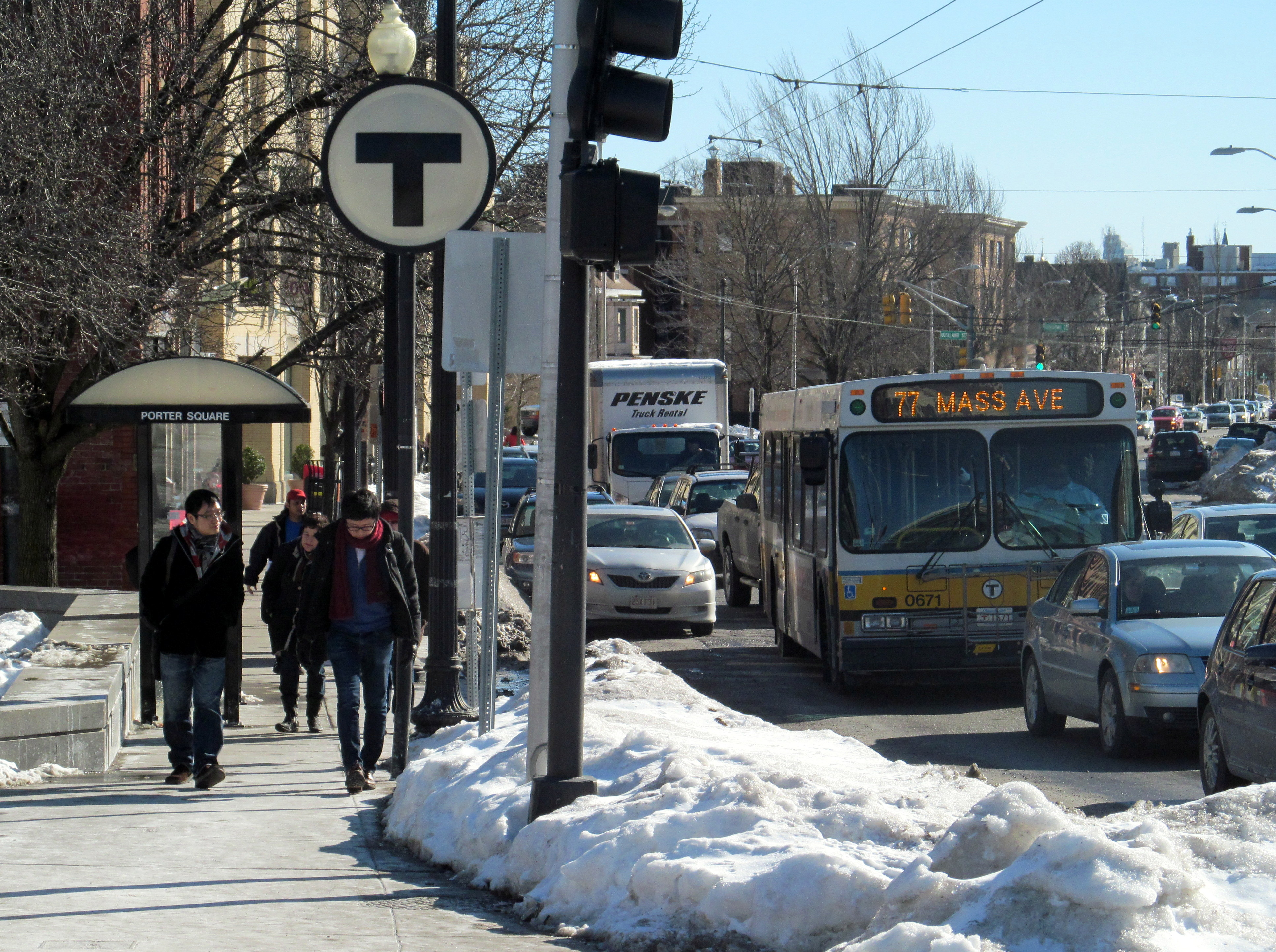 A northbound #77 bus at Porter station in Cambridge, Massachusetts